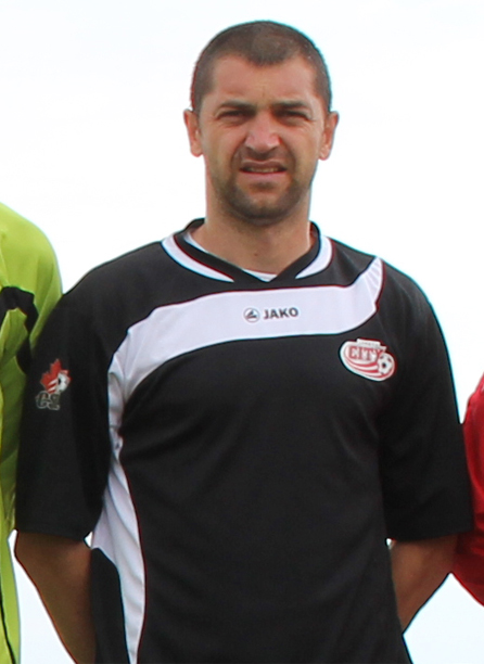 Photo of Dalibor Mitrović during his time playing for Canadian Soccer League side London City.